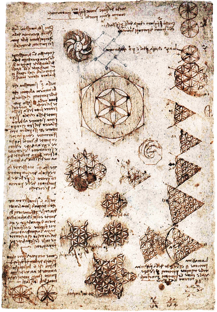 This is a picture of one of Leonardo da Vinci's drawings of geometrical structures related to the ornamental structure named today “Flower of Life”.